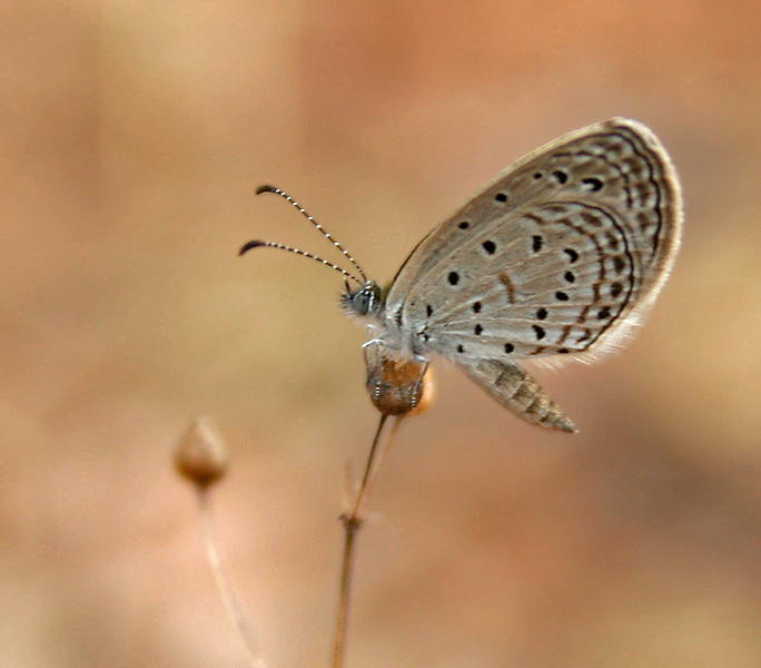 Tiny Grass Blue Zizula gaika in Hyderabad , India.